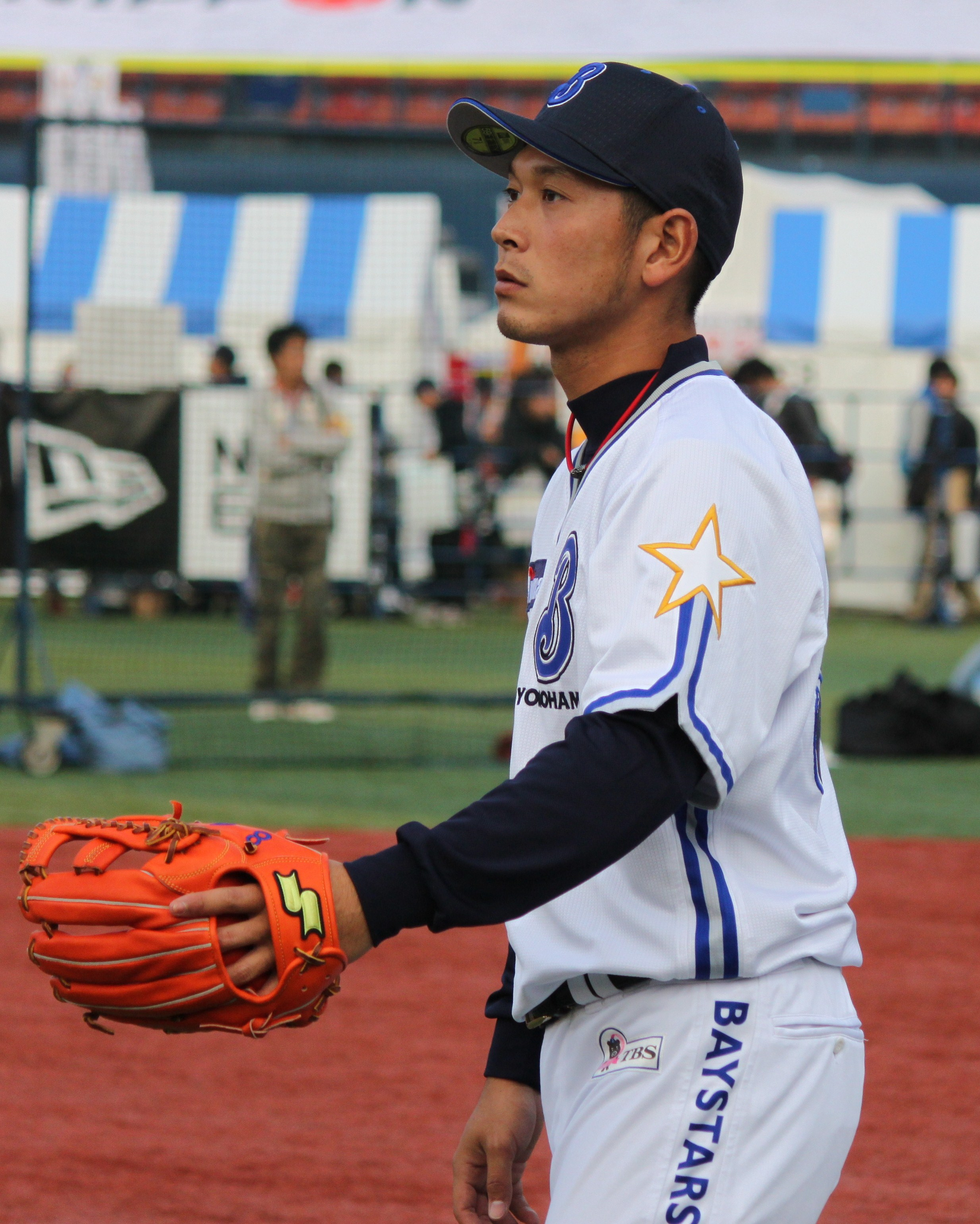 Kenjiro Tsuruoka, catcher of the Yokohama BayStars, at Yokohama Stadium.